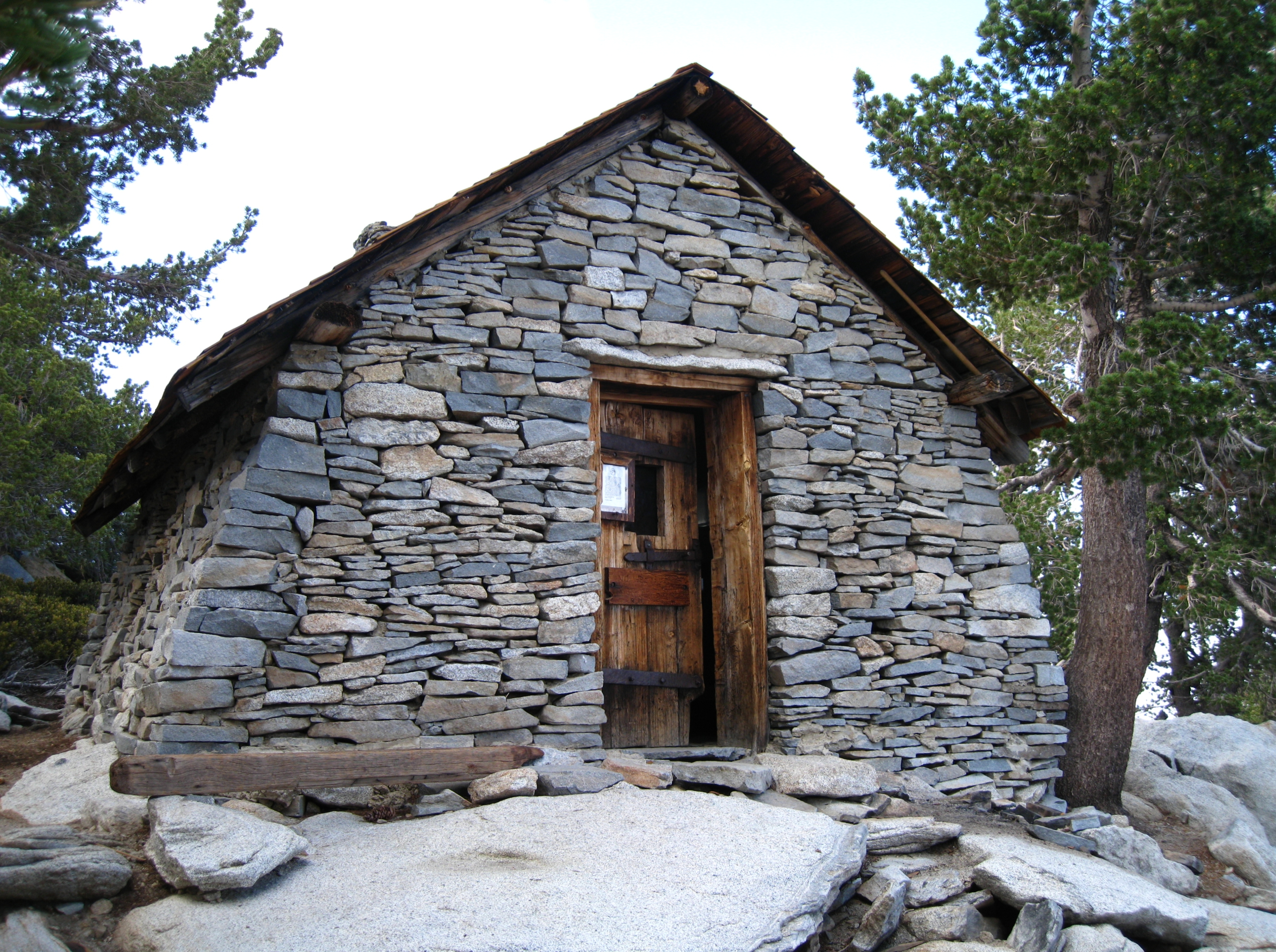 Emergency hut near the summit of Mount San Jacinto, in the San Jacinto Mountains, Southern California.